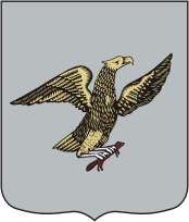 Yakutsk (Yakutia), coat of arms (1790)